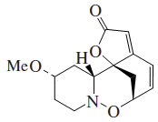 Secuammamide D structure